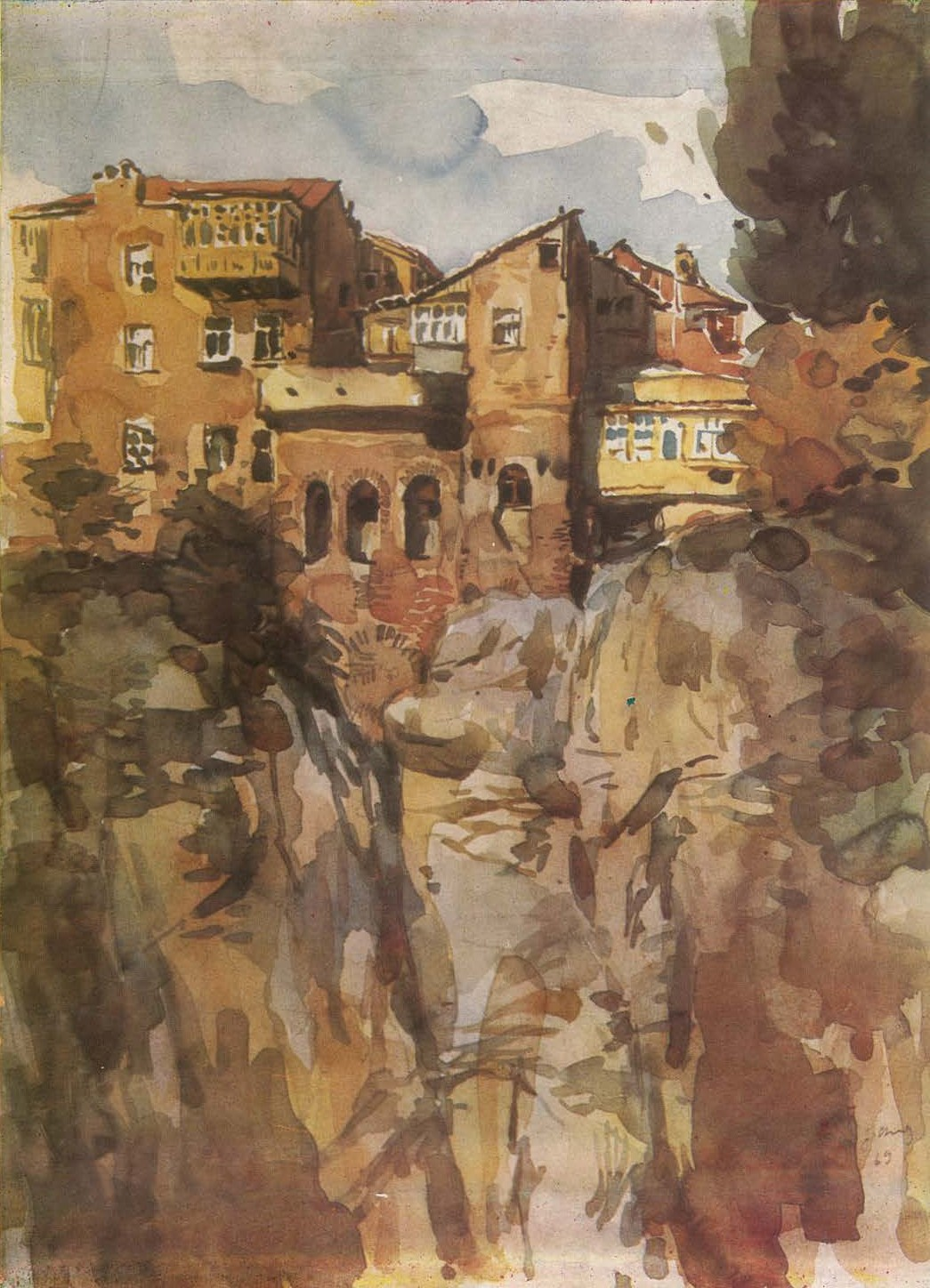 Painting of Ancient Tbilissi